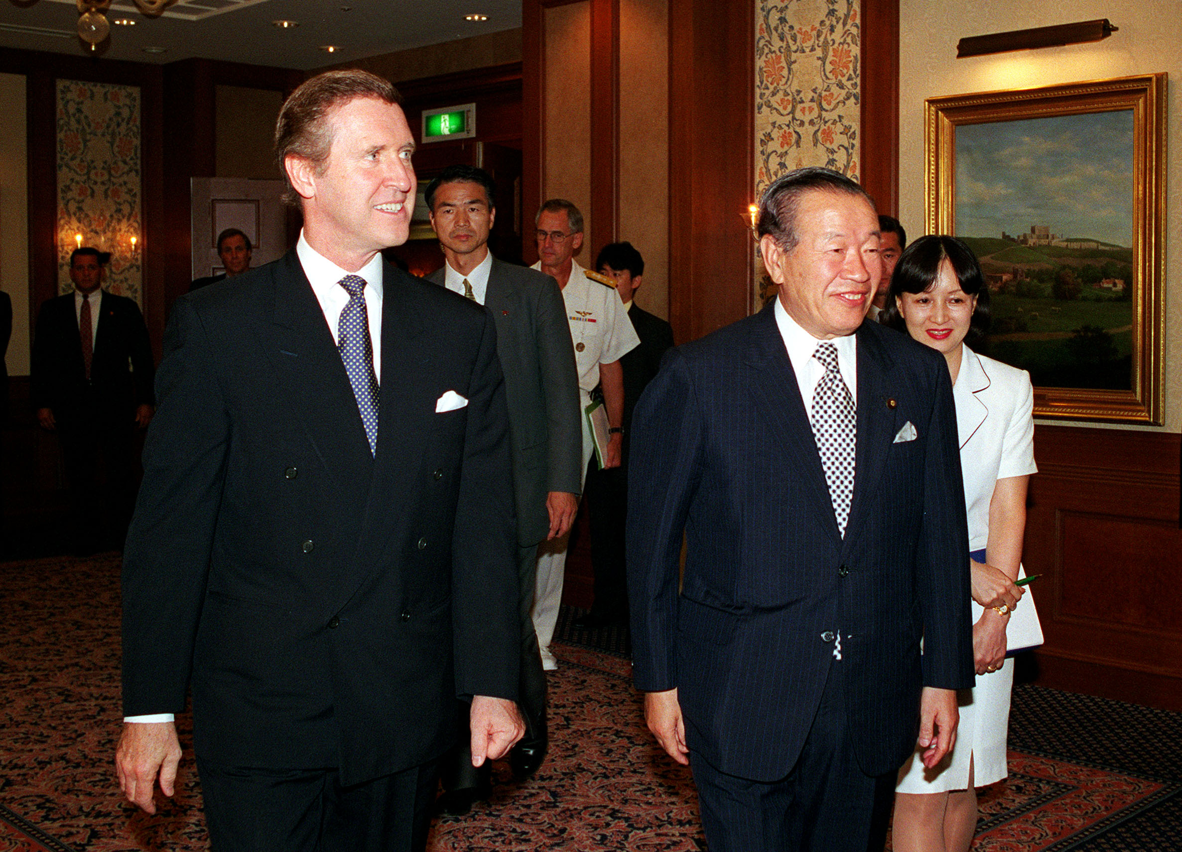 Secretary of Defense William S. Cohen (left) joins Minister of State for Defense Housei Norota for lunch in Tokyo, Japan, on July 28, 1999. Cohen is in Japan to meet with Japanese officials and U.S. troops stationed there.